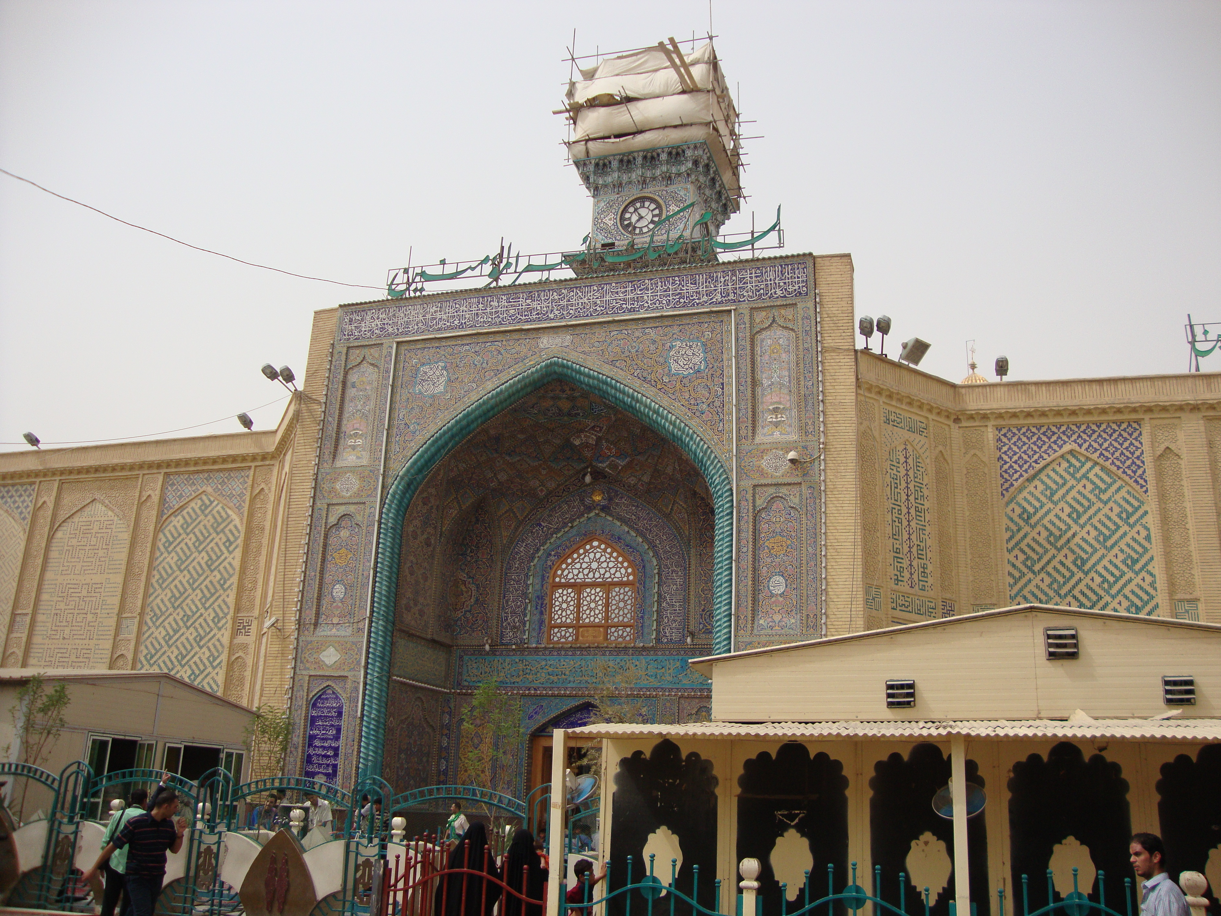 Imam Ali Shrine, Najaf, Iraq.